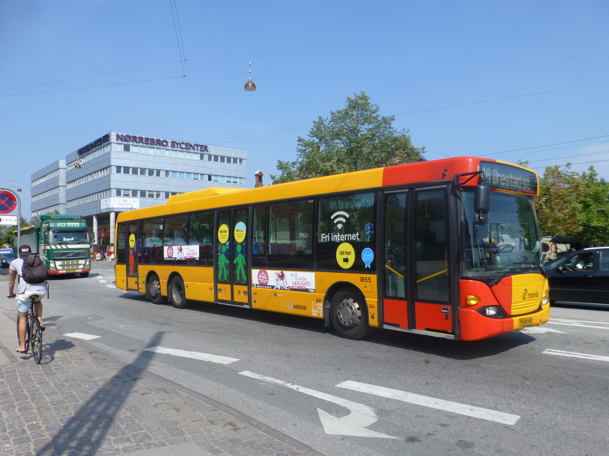 Movia bus line 4A on Lygten at Nørrebro Station in Copenhagen.